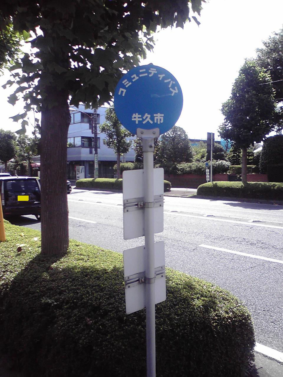 This is a bus stop for Ushiku City Community Bus "Kappa-Go".